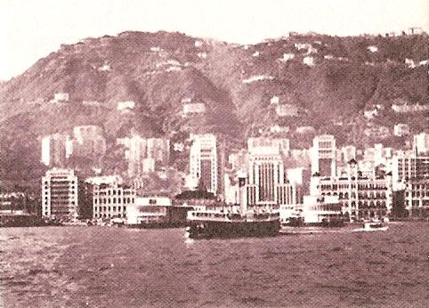 1950年代的中環沿岸。Hong Kong's Central District seaside in 1950s.